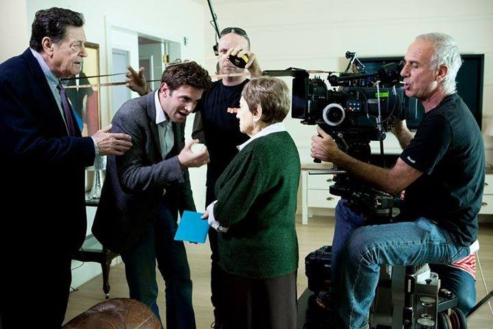 אמיר וולף